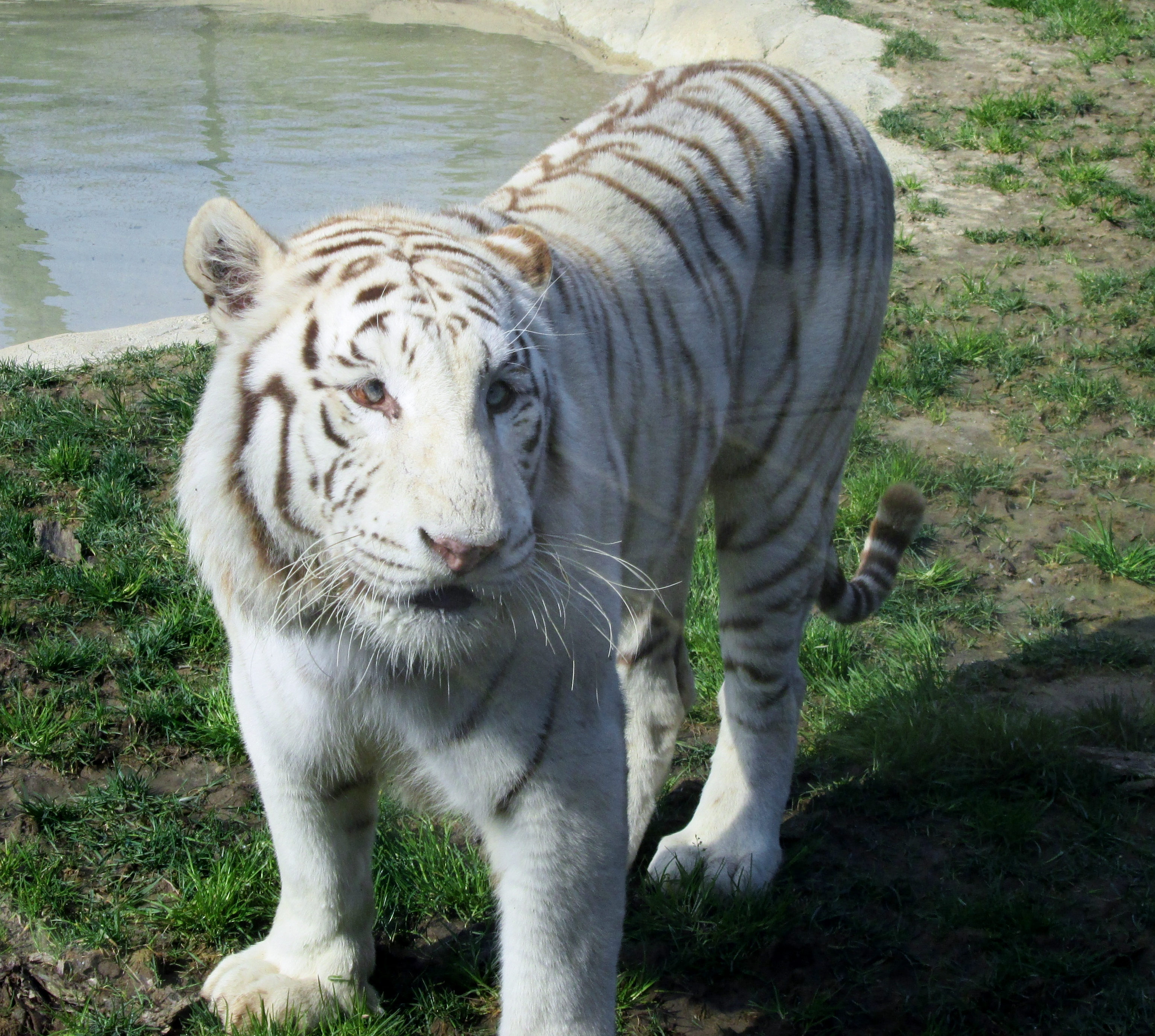 White Tiger at Parco Faunistico Le Cornelle ITALY